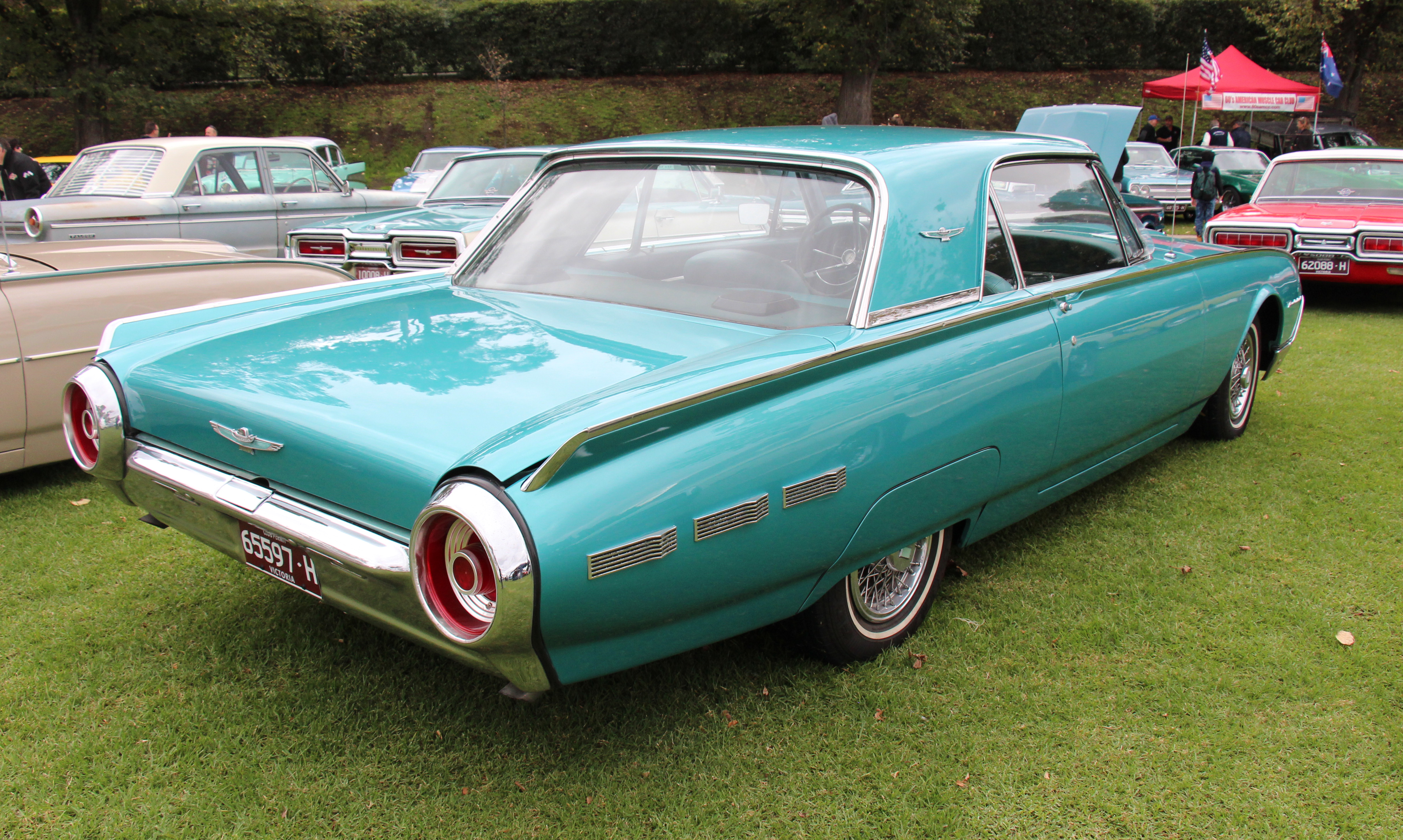 The third generation Thunderbirds were built from 1961-63, nicknamed the 'Bullet Bird', styling inspiration from rocket ships, with a pointed nose, recessed headlamps, twin round taillights shaped like a jet engine. Available as a Hardtop or Convertible, the Hardtop had softer roof lines than its 'Square Bird' predecessor. On the convertible models, the trunk lid was still rear-hinged, which raised and lowered through hydraulic cylinders. With the top down and trunk lid lowered, there was no sight of the soft-top. The dashboard curved at both ends, blending into the door panels. The traditional glove-box was gone and a center-console glove-box took its place. The 1962 model got a very mild facelift, a new grille with mesh look rather than the horizontal bars. Two new models were available, The Landau Hardtop, with a vinyl roof and simulated S-bars on the rear pillars and also the 'Sports Roadster' with fibreglass tonneau over the rear seats to give it that 2 seater look. Standard for 1962 was the swing away steering wheel, power steering, power brakes, back up lights and bucket seats Only Engine; 275hp R Code, 300hp Z Code or 340hp M Code 390 cu in V8s